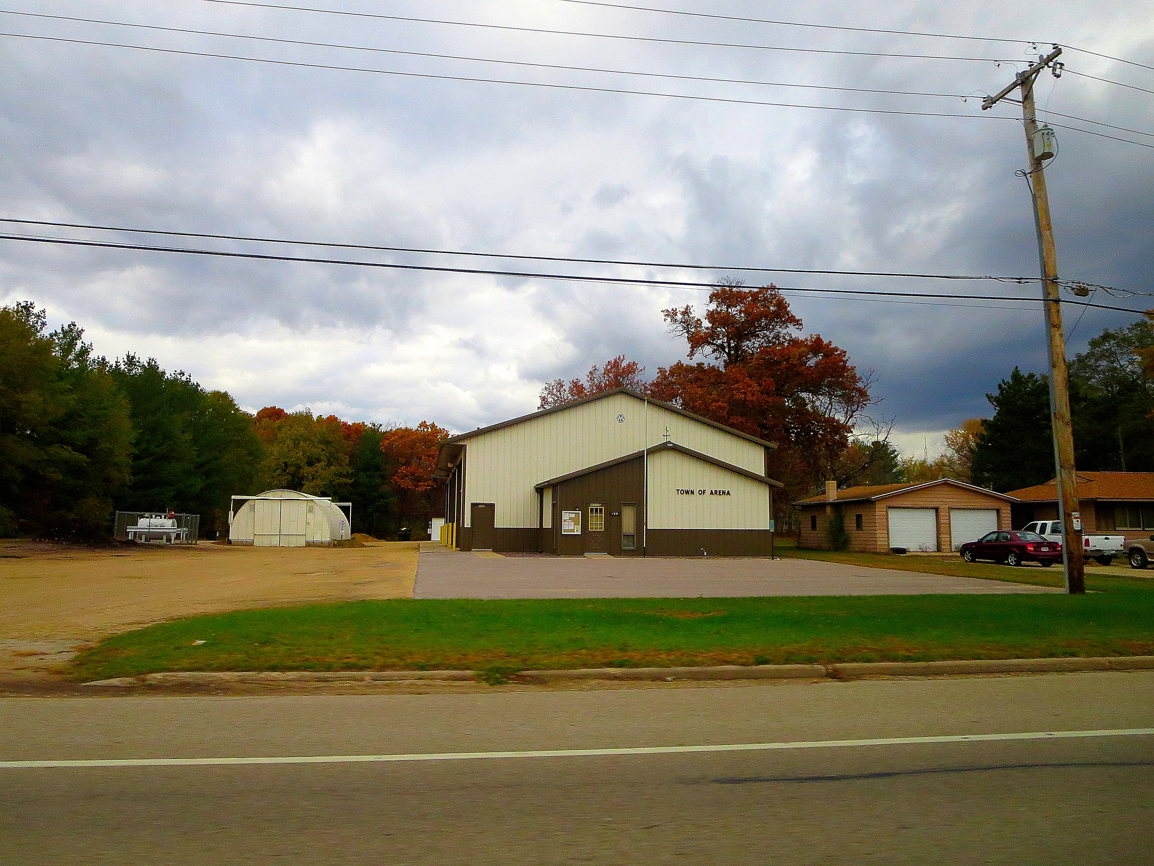 Arena Town Hall & Garage